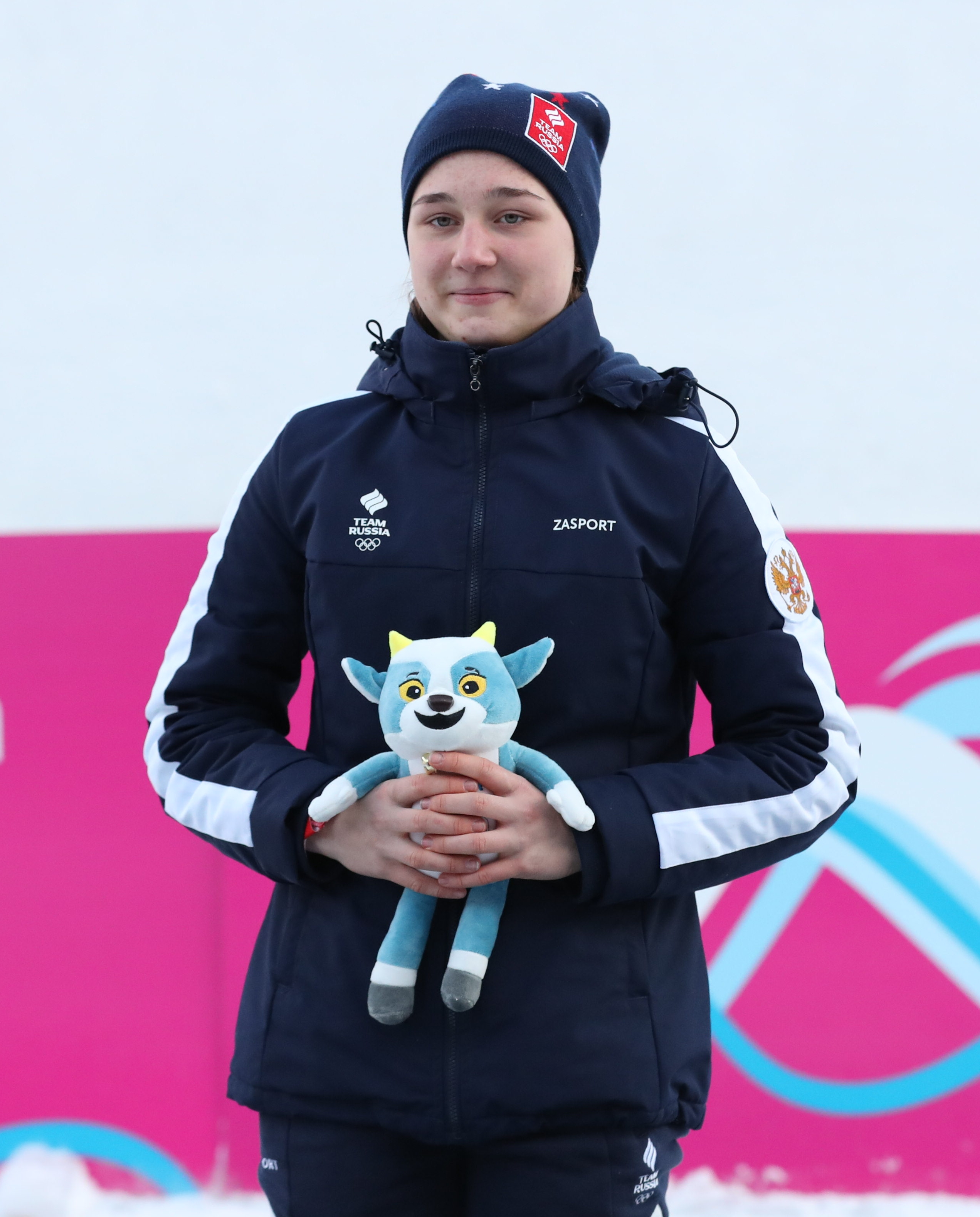 Mascot Ceremony Women's Skeleton at the 2020 Winter Youth Olympics in Lausanne